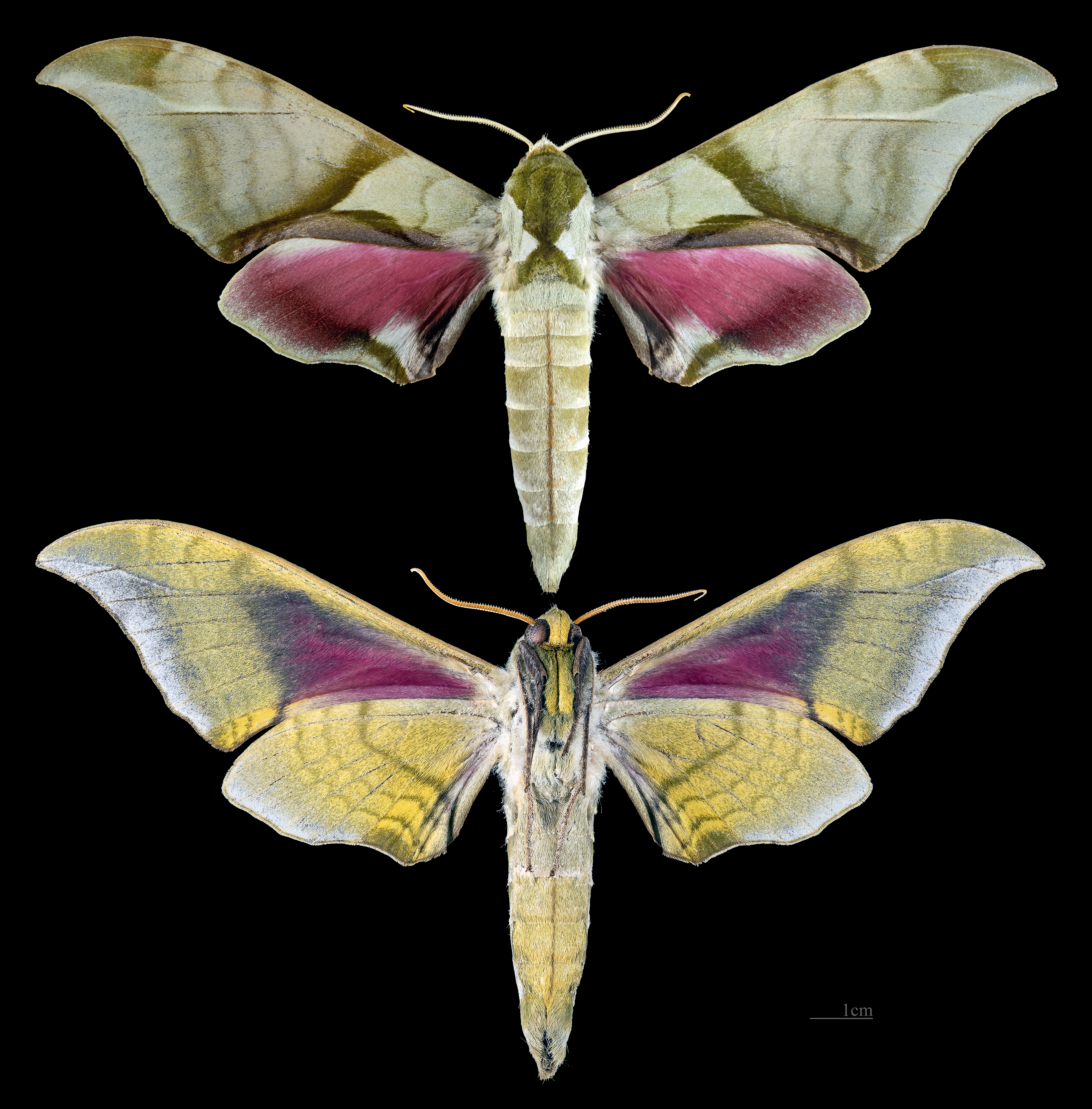 Callambulyx poecilus - Two views of same specimen Collection of the Mathematician Laurent Schwartz